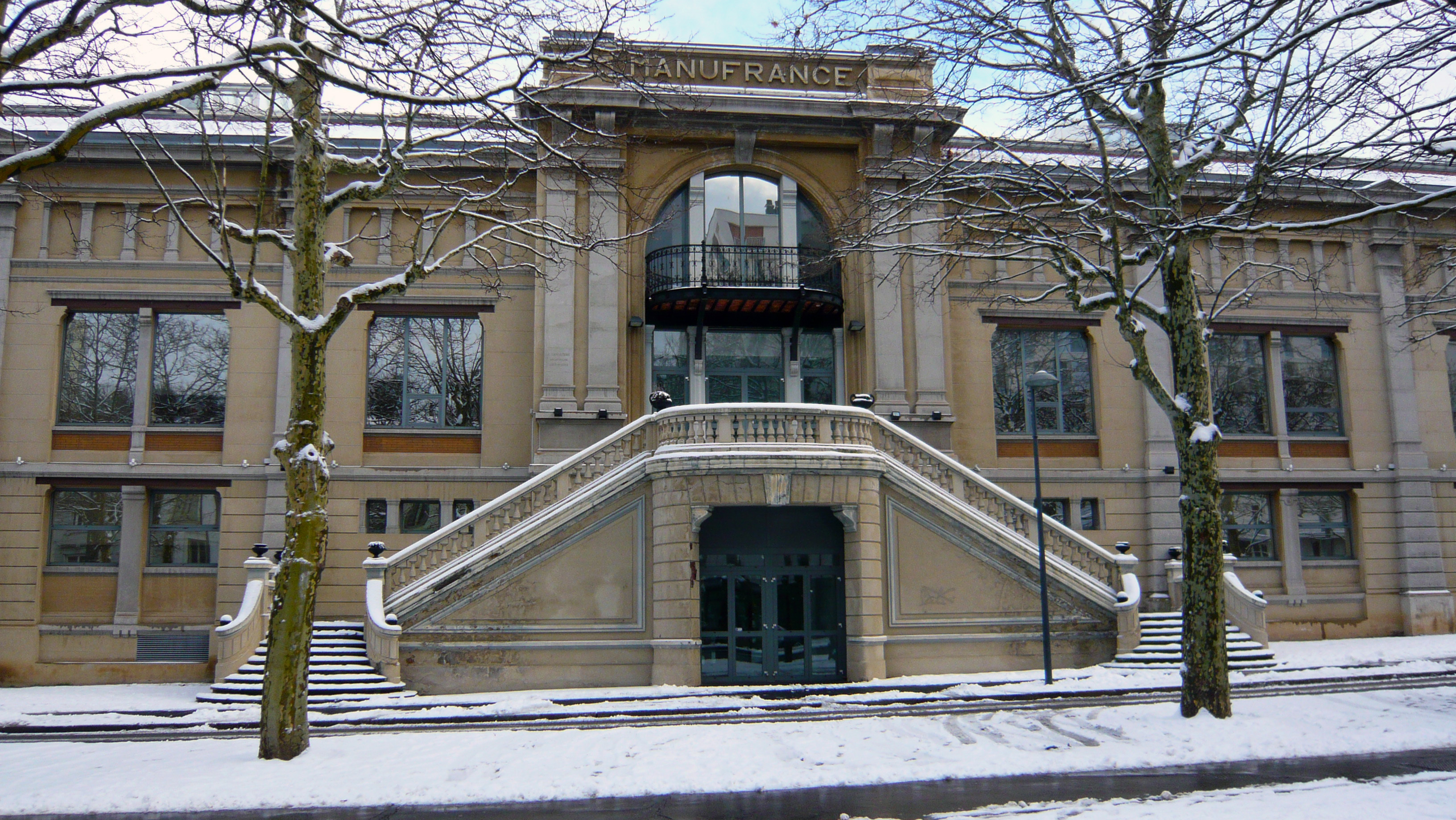 Main staircase of the Manufrance's offices.